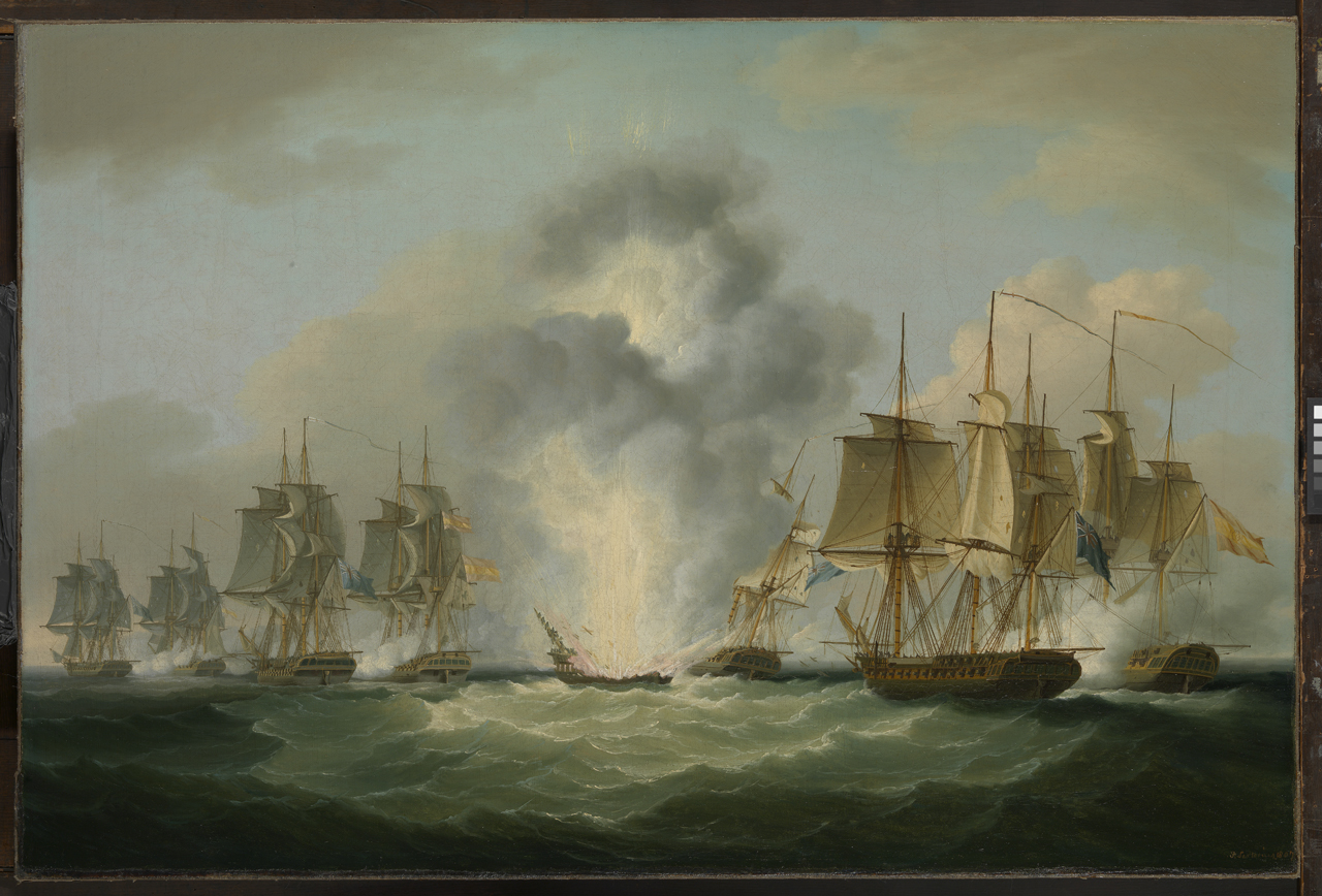 Four Spanish frigates with a rich shipment from Montevideo headed for Cadiz. The cargo was ultimately destined for France and therefore potentially for use against the British. Four British frigates lay in wait to capture them and the two squadrons met on 5 October. The senior British commander Captain Graham Moore asked the Spanish Admiral to surrender. When he refused, action commenced, and within ten minutes the Spanish ‘Mercedes’ had blown up with the loss of all but one officer and 45 men. Half an hour later the Spanish ships ‘Medea’ and ‘Clara’ both surrendered. The Spanish ‘Fama’ tried to escape but also surrendered after she was chased by the British ‘Lively’. Sartorius has arranged the eight ships of the two opposing squadrons across the canvas in pairs. In the right foreground the ‘Lively fires into the ‘Clara’. Ahead of them is the exploding ‘Mercedes’ with the stern of the British ‘Amphion’ beyond her. To the left and ahead the British ‘Indefatigable’ and Spanish ‘Medea’ on the right are in close action. Beyond them the British ‘Medusa’ and Spanish ‘Fama’ are also firing at each other.